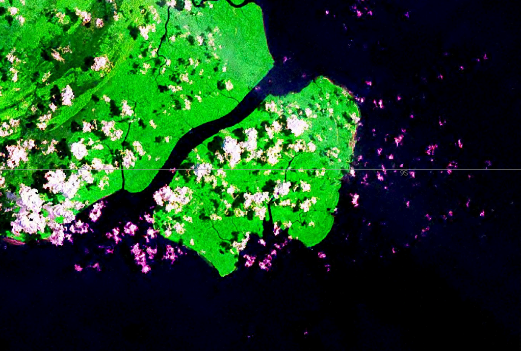 Image of Parama Island, south of Fly River delta, Western Province, Papua New Guinea